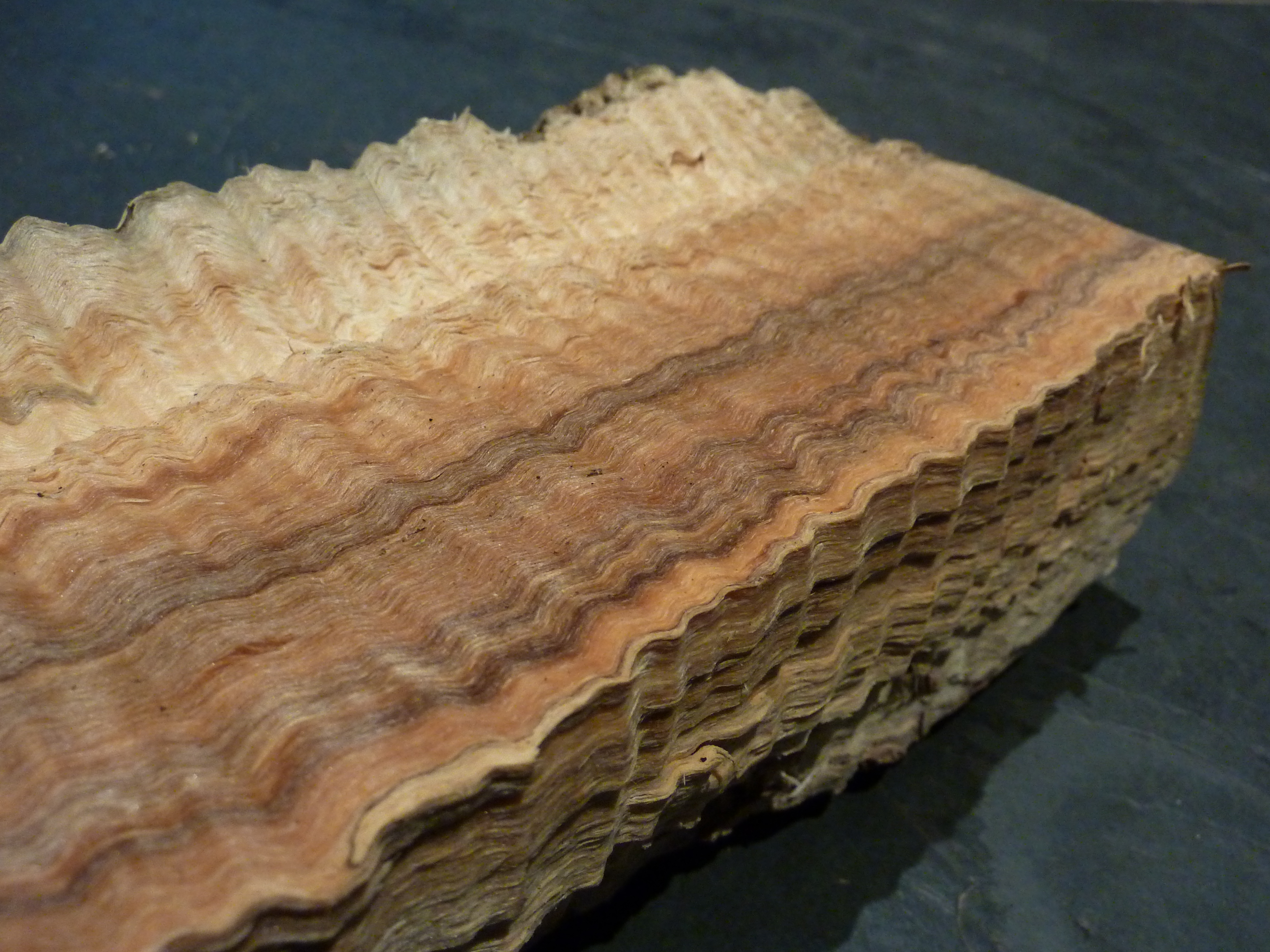 Split wood showing curly grain. Wavelength of curls is 6-7mm, polarization is circumferential to the tree - so the radial-plane split surface (on the right) is highly corrugated